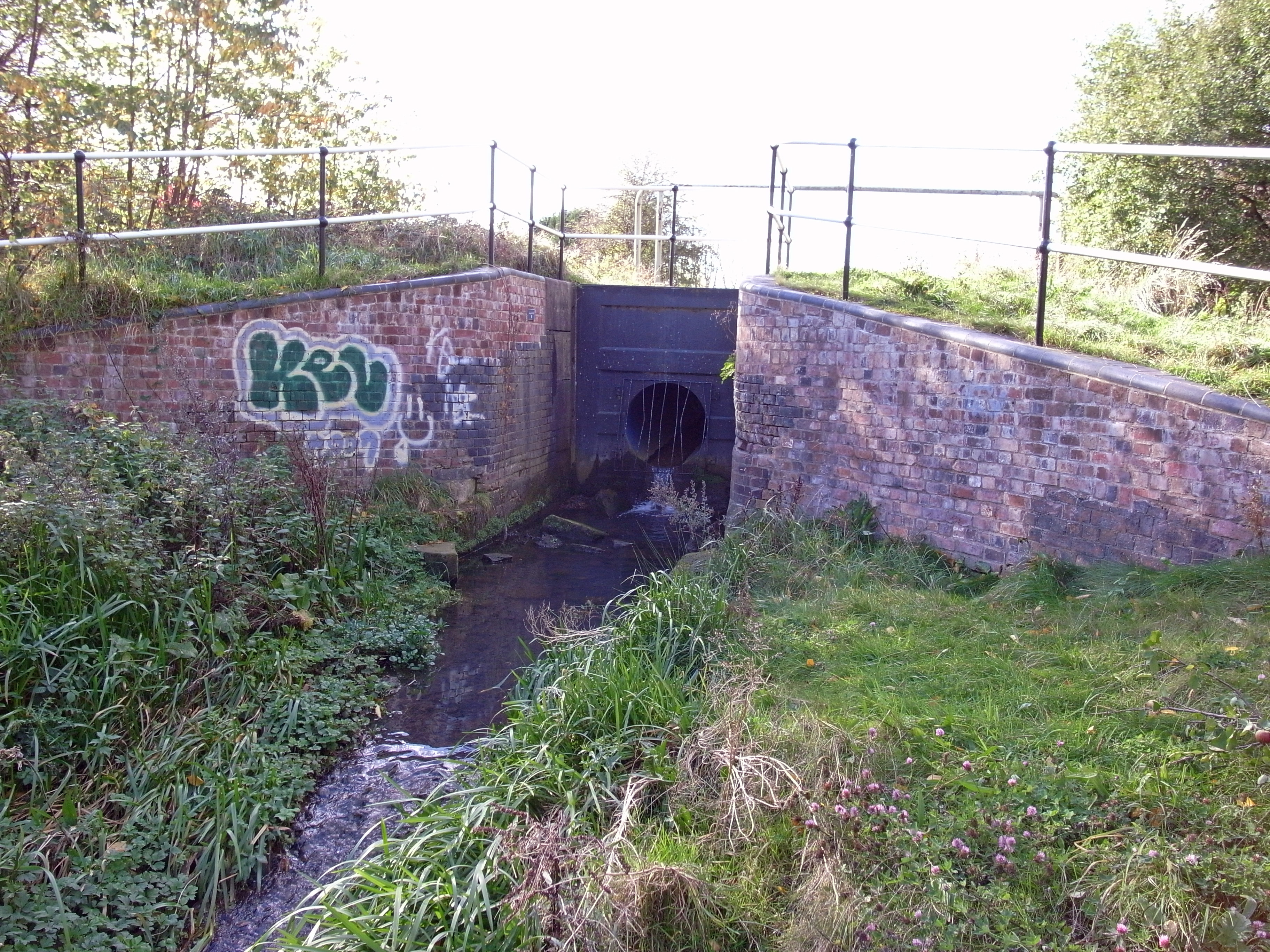 Culverted (filled in) Lock No. 2 on the disused Bradley Branch Canal (part of the Birmingham Canal Navigations in Wednesbury, West Midlands (county), England.